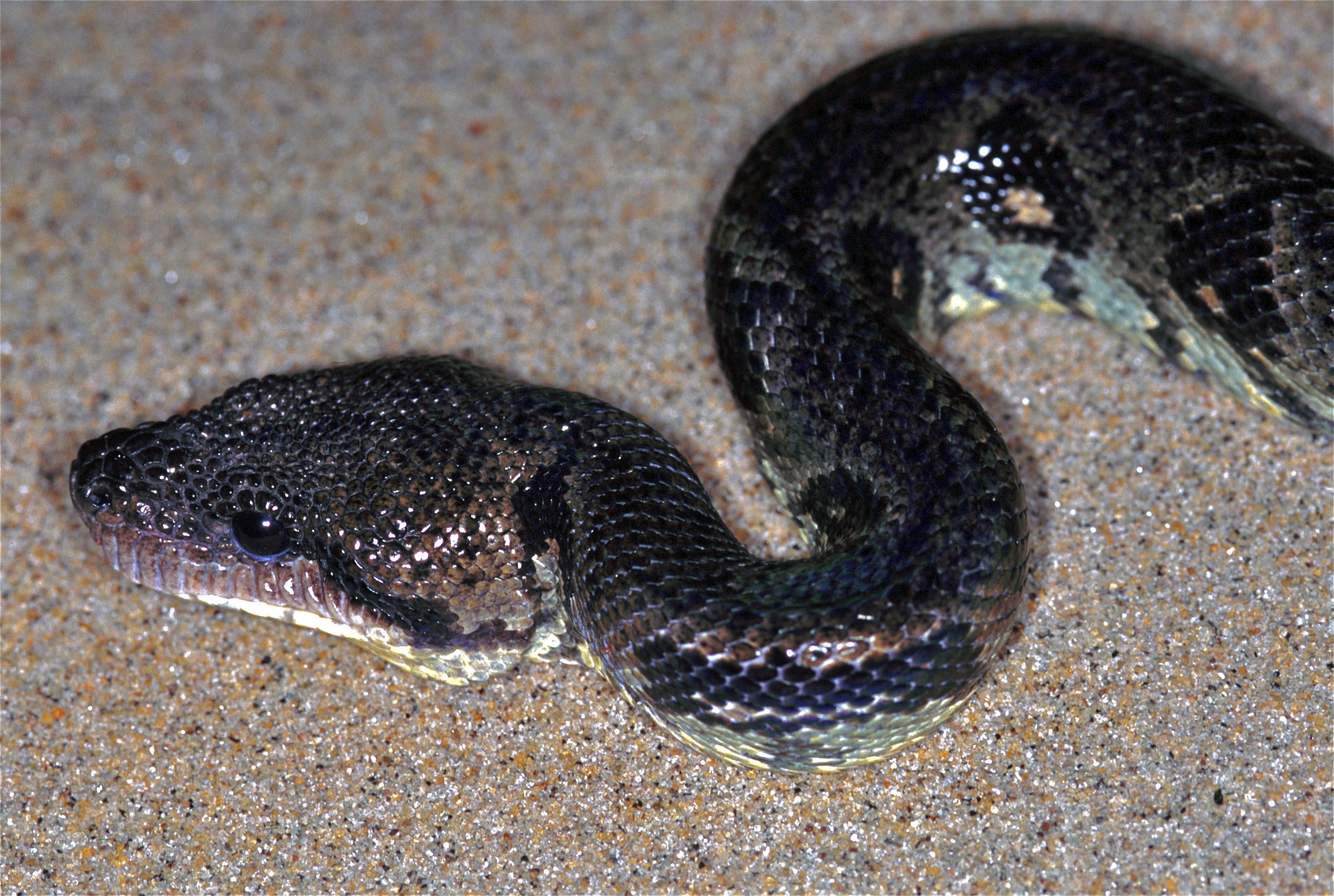 Nosy Mangabe, MADAGASCAR Scanned Slide from 2004